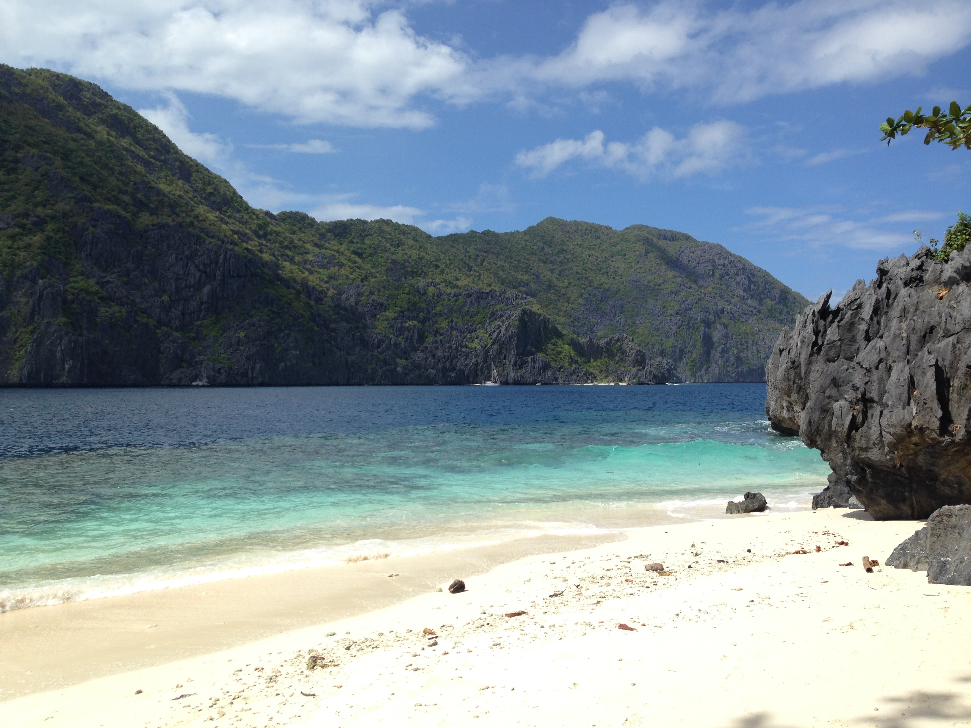 Facing west from Matinloc Island